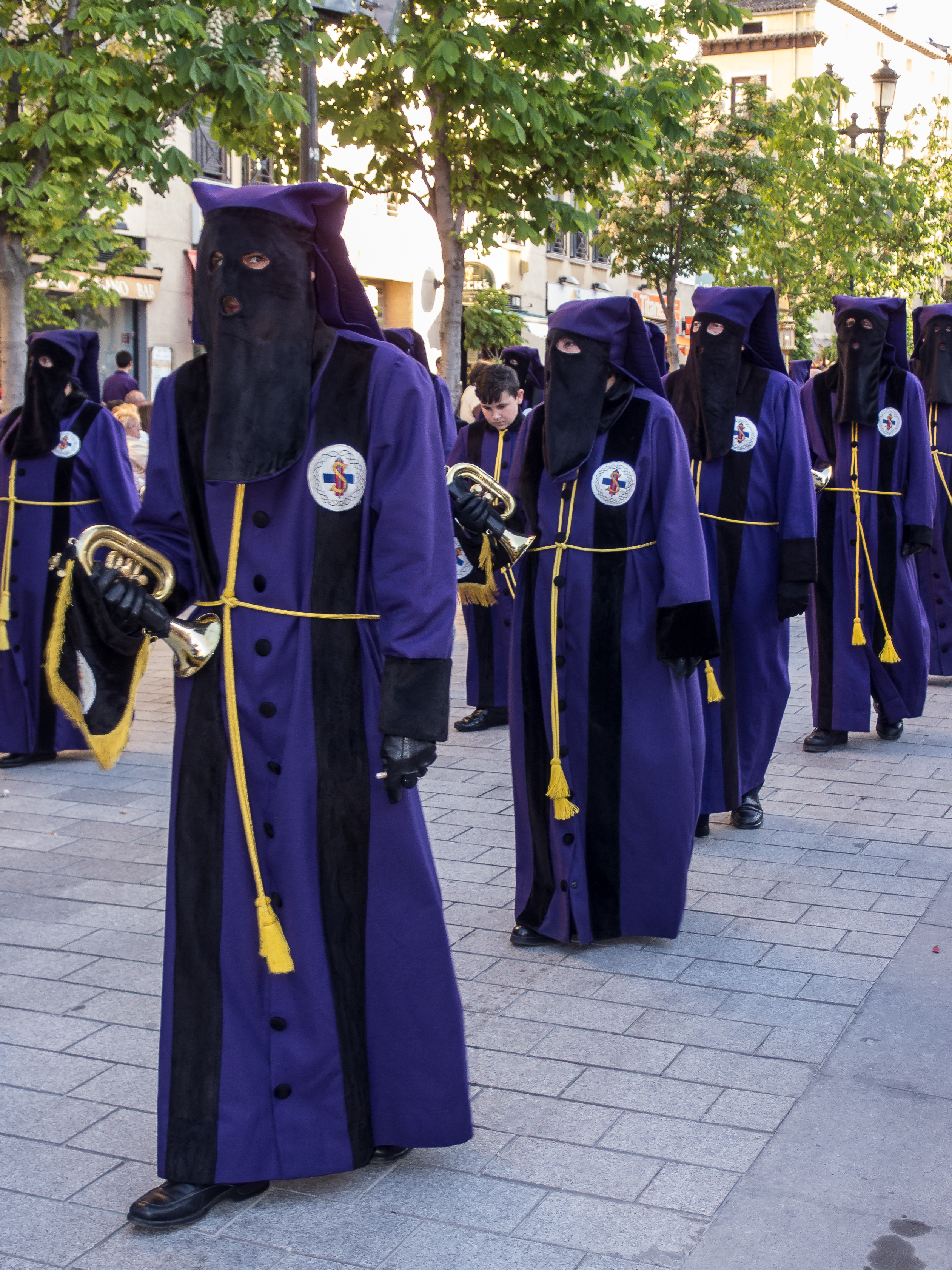 OLYMPUS DIGITAL CAMERA This is a photography of a Folklore festival in Spain (Wikidata id Q9075892).